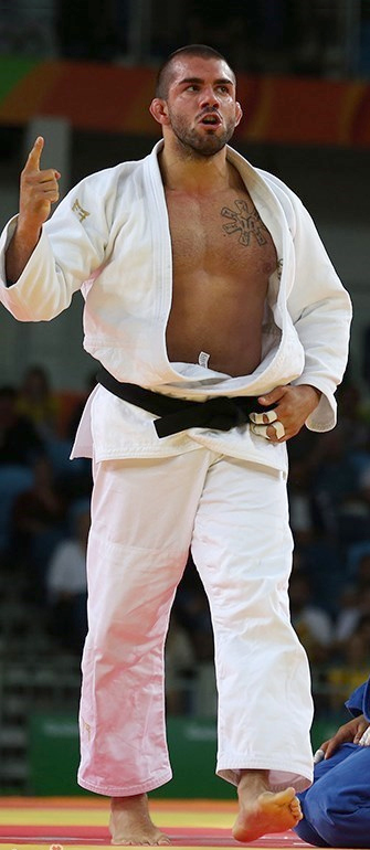 Judo at the 2016 Summer Olympics – Men's 100 kg